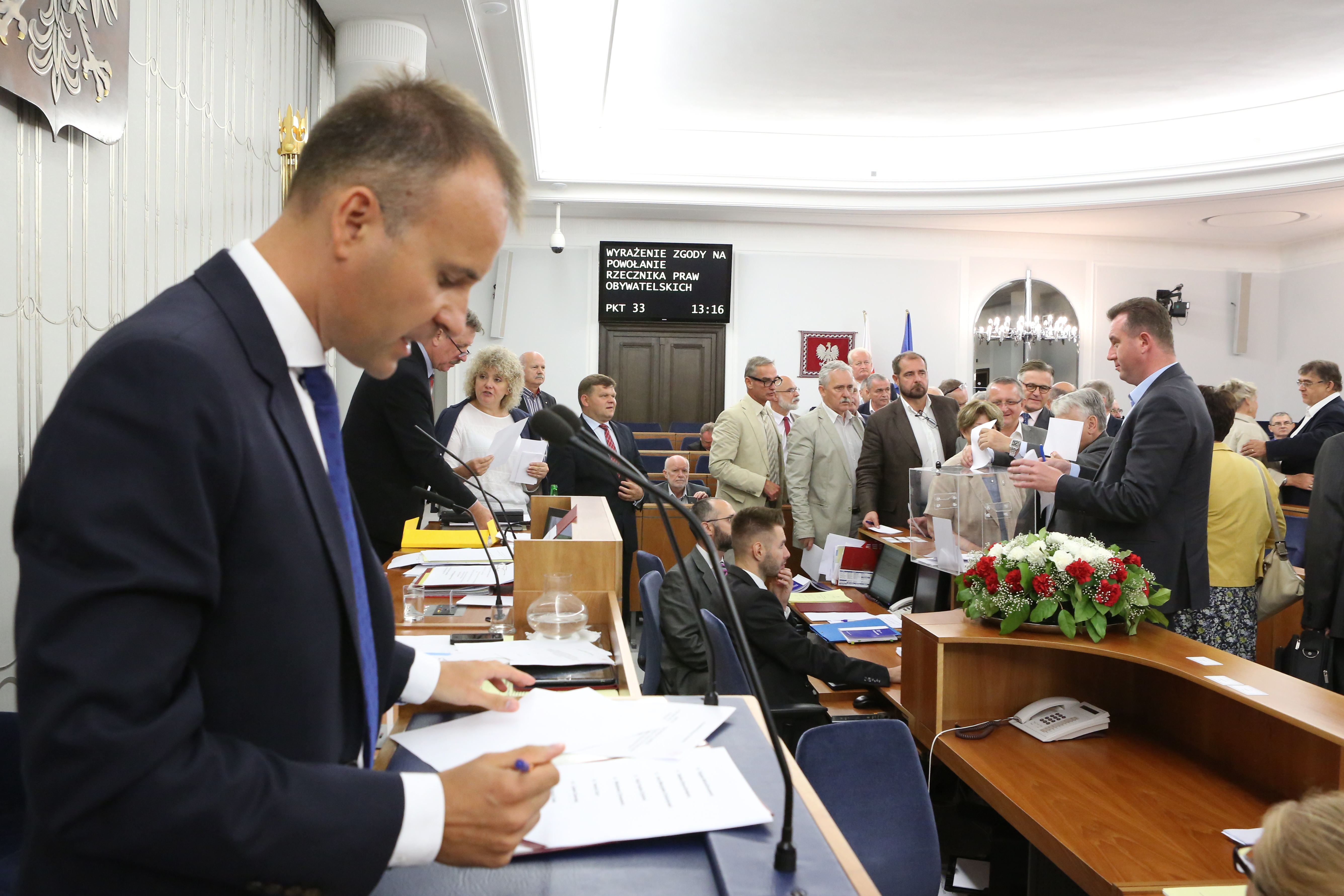 80th sitting of the Polish Senate. Confirmation vote for Adam Bodnar nominated as Polish Ombudsman